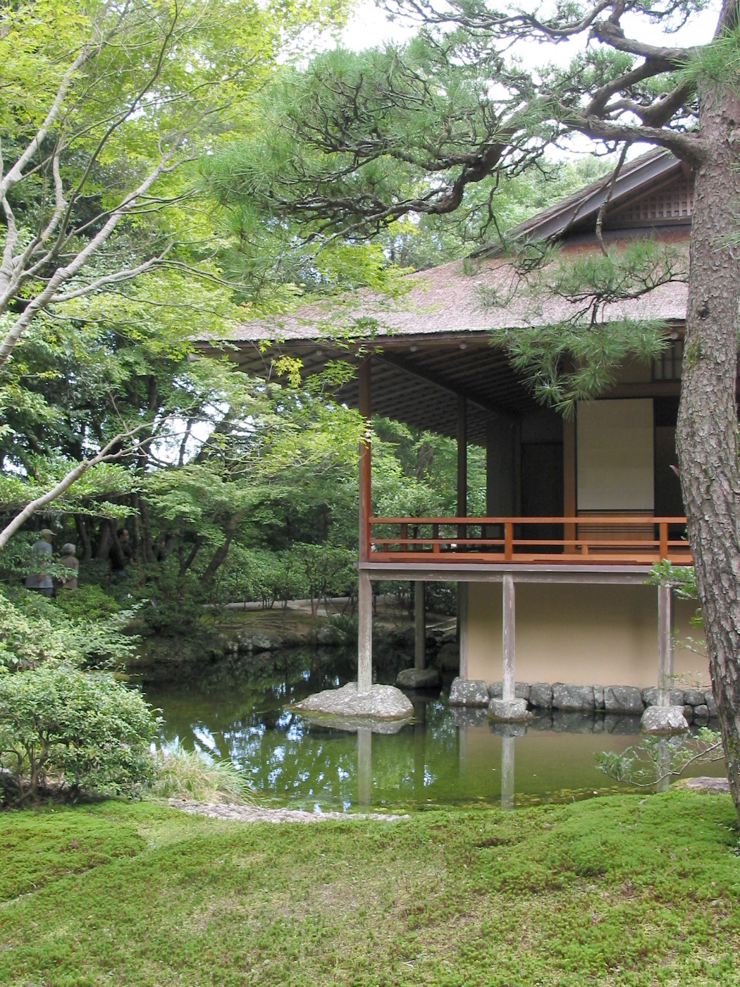 Jingu ChashitsuI took this image at Kotaijingu Uji-tachi Ise Mie Pref., Japan. 神宮茶室 真の棟三重県伊勢市宇治館町の皇大神宮（伊勢神宮 内宮）にて投稿者撮影